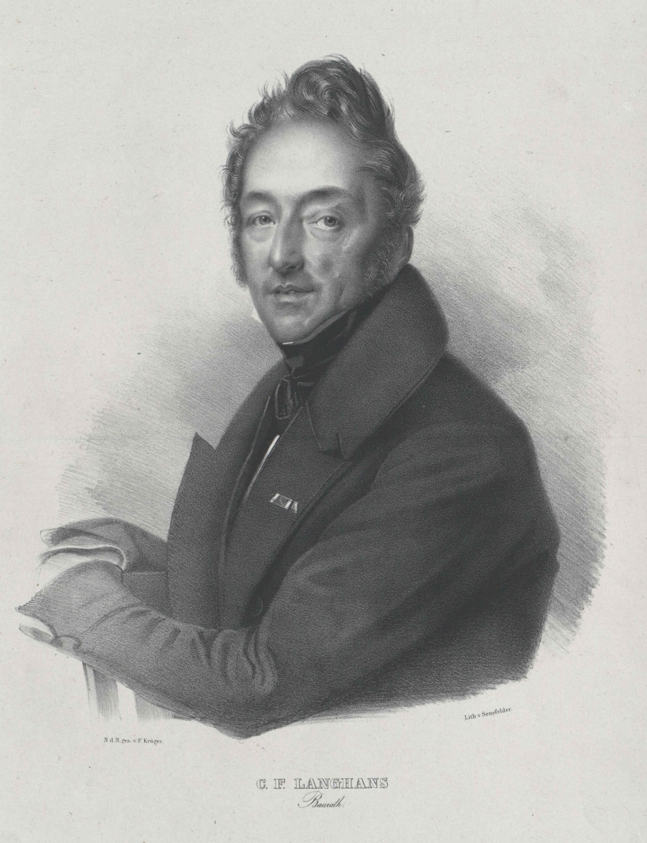 Carl Ferdinand Langhans (1782-1869), German architect.